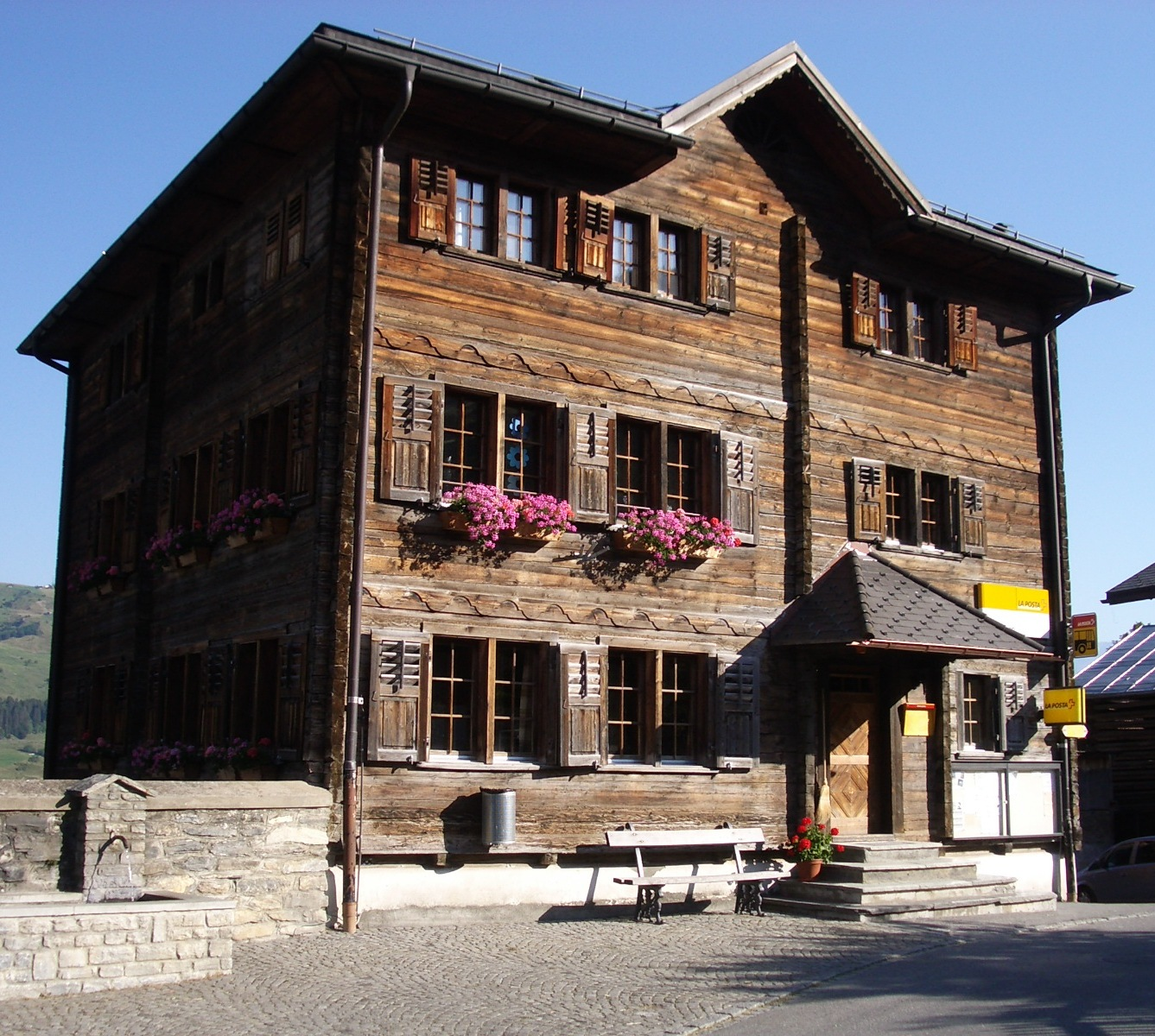 Duvin GR, Switzerland self-made, July 2006